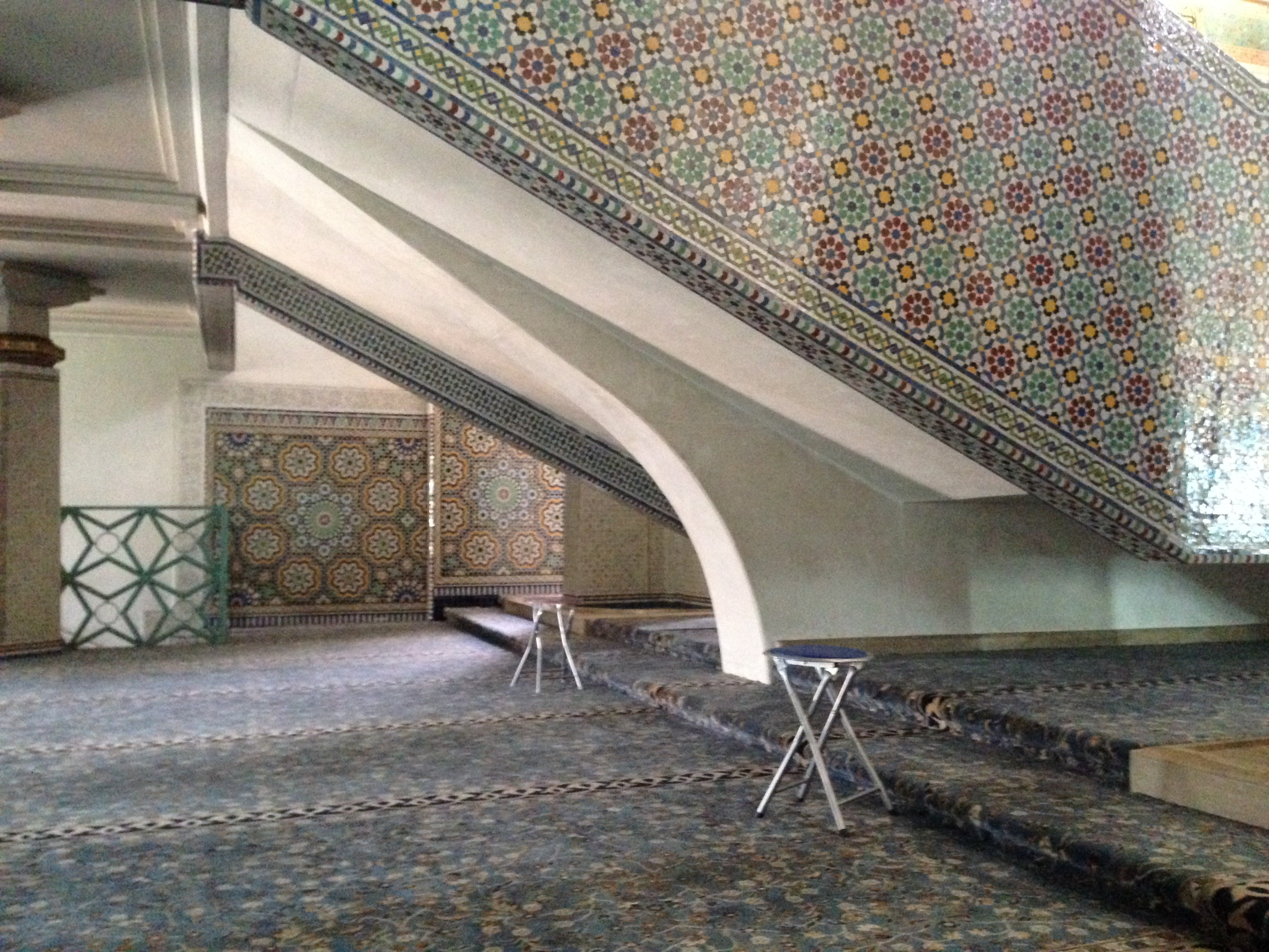 Great Mosque of Rome, Italy.